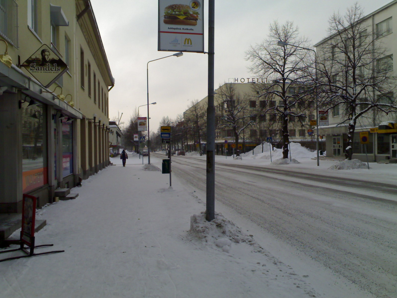 Ahlströminkatu street in Varkaus, Finland